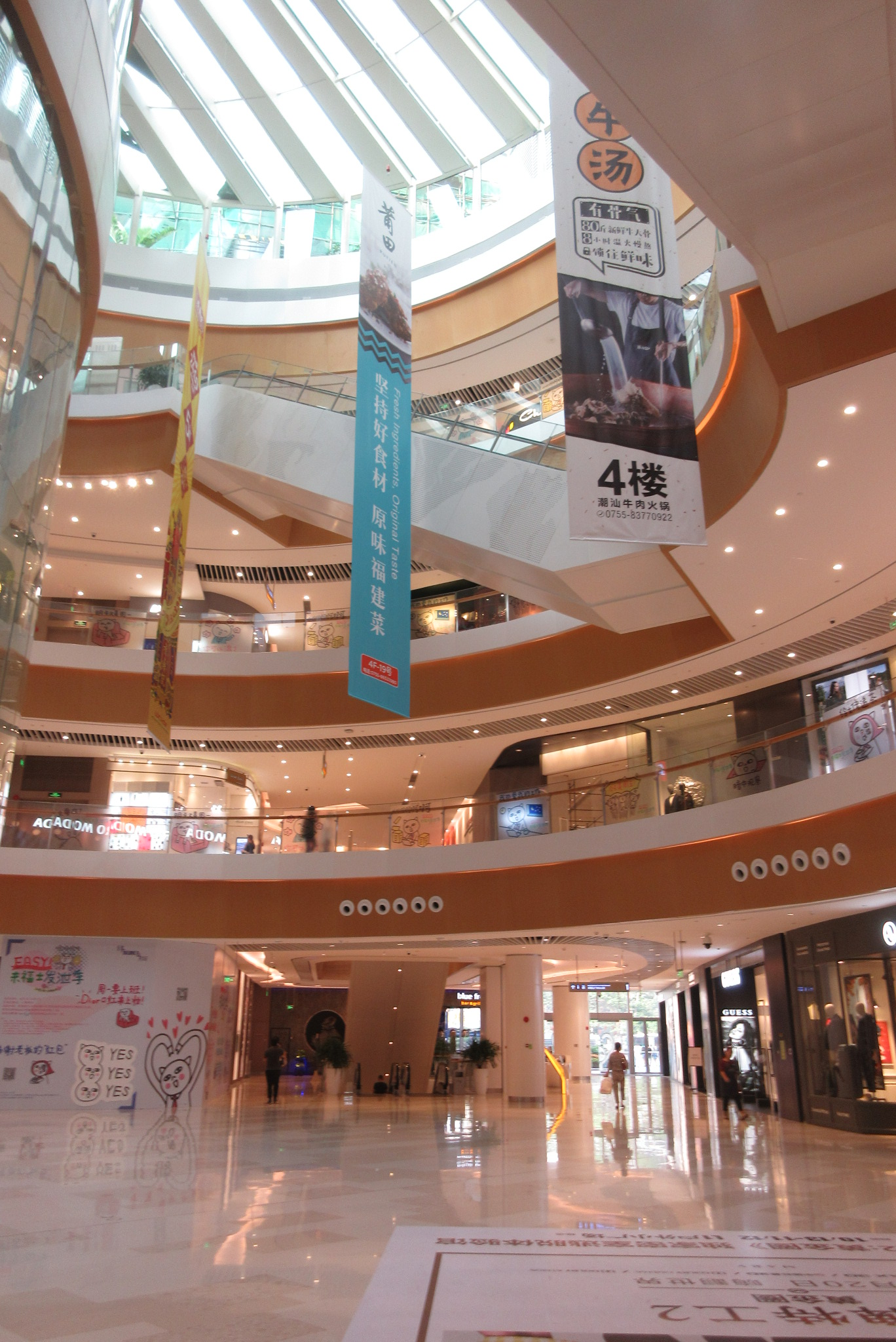 SZ 深圳 Shenzhen 南山 Nanshan 南海大道 Nanhai Blvd 來福士廣場 Capitaland Raffles City Mall in October 2017